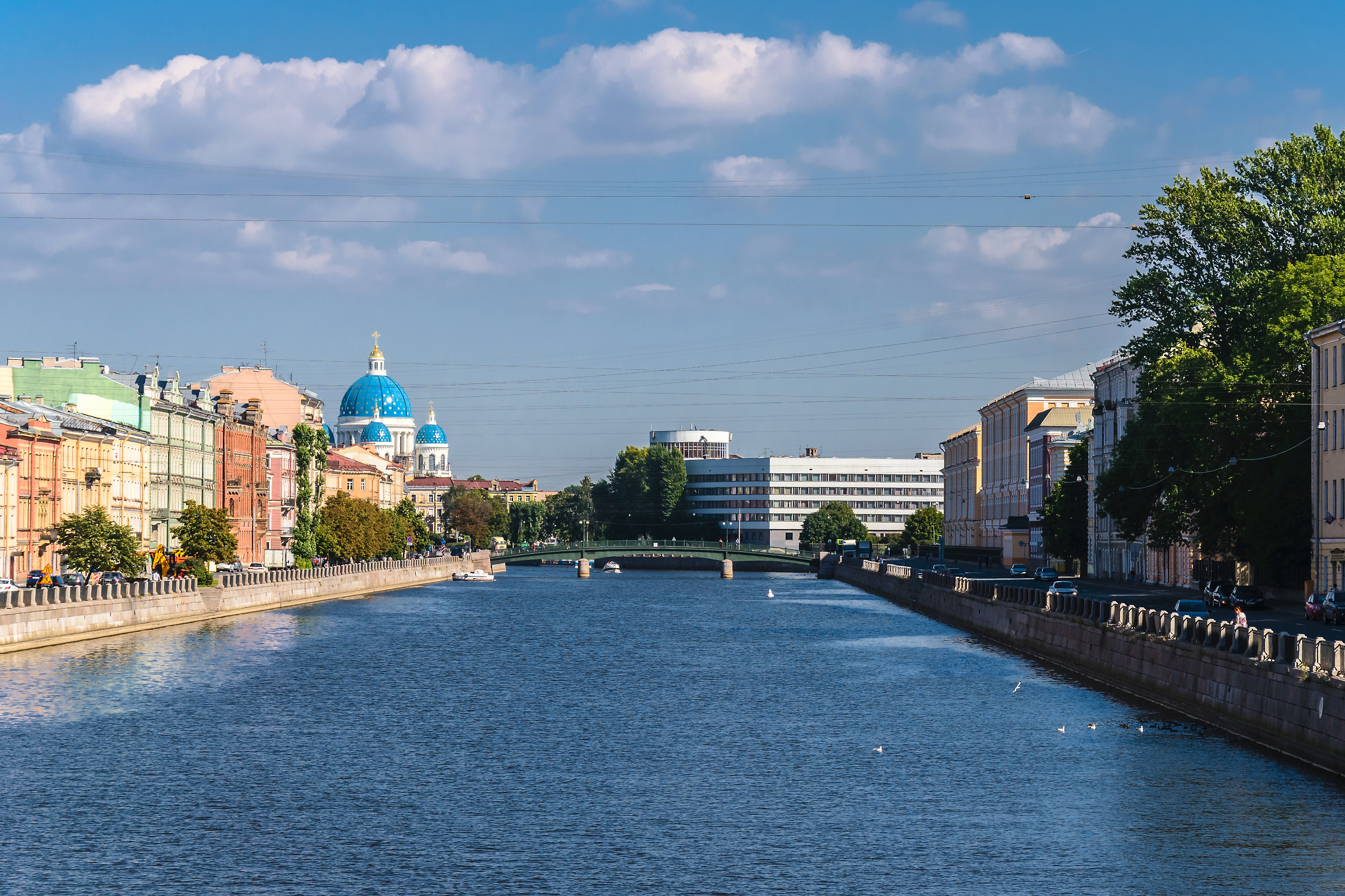 Fontanka River Perspective in Saint Petersburg